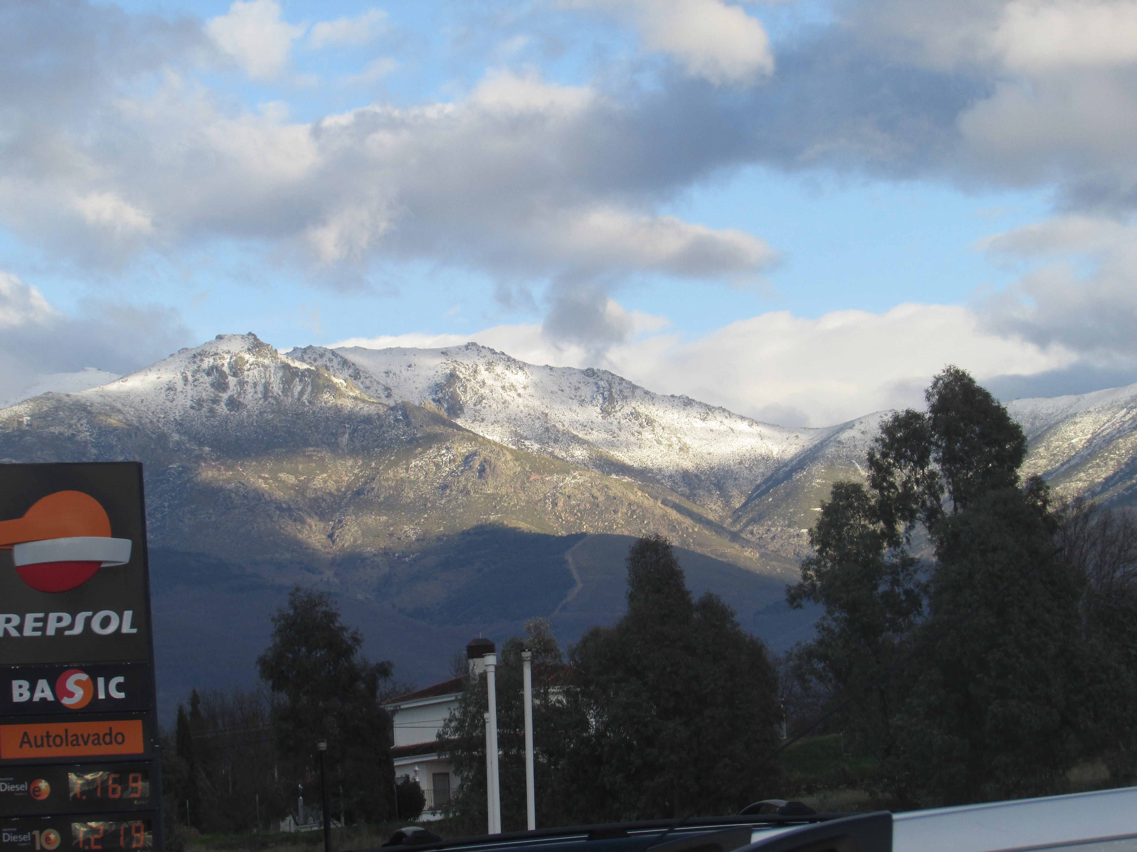 A view of mountains of the Sierra de Gredosarea near the town of Hervás, Extremadura, Spain.